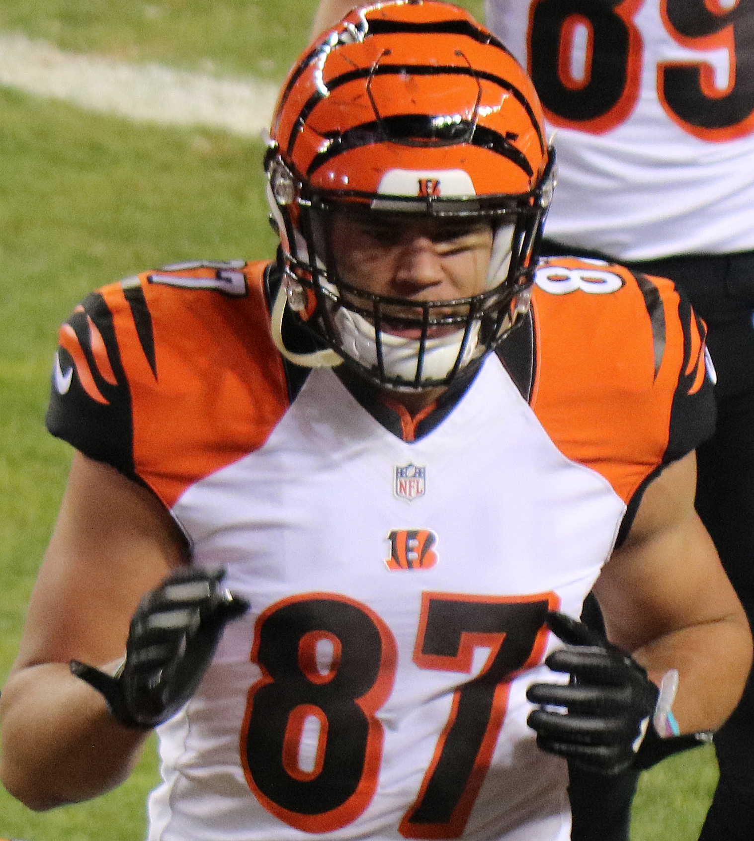 C. J. Uzomah, a player on the National Football League.